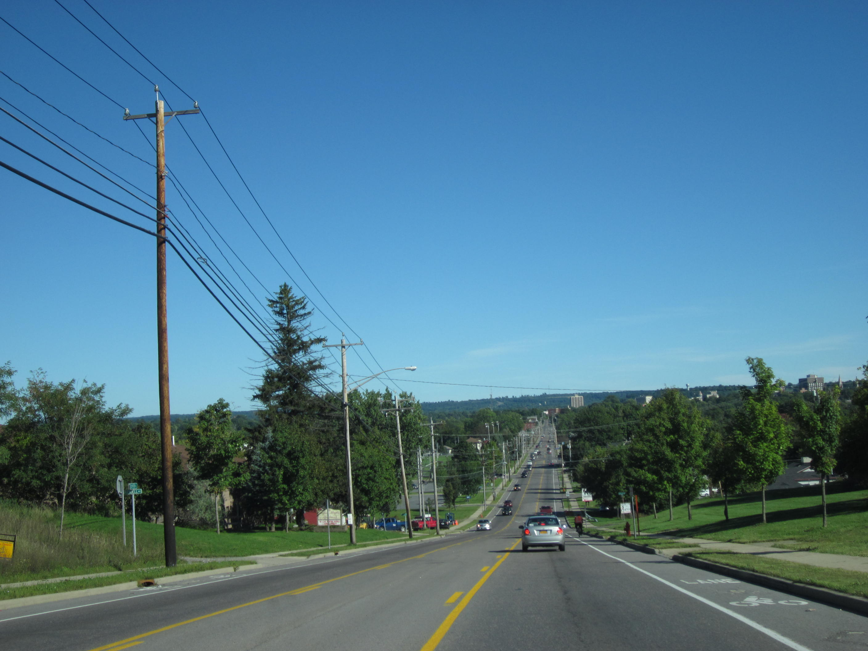 New York State Route 12F eastbound near Kendall Avenue in Watertown, New York.